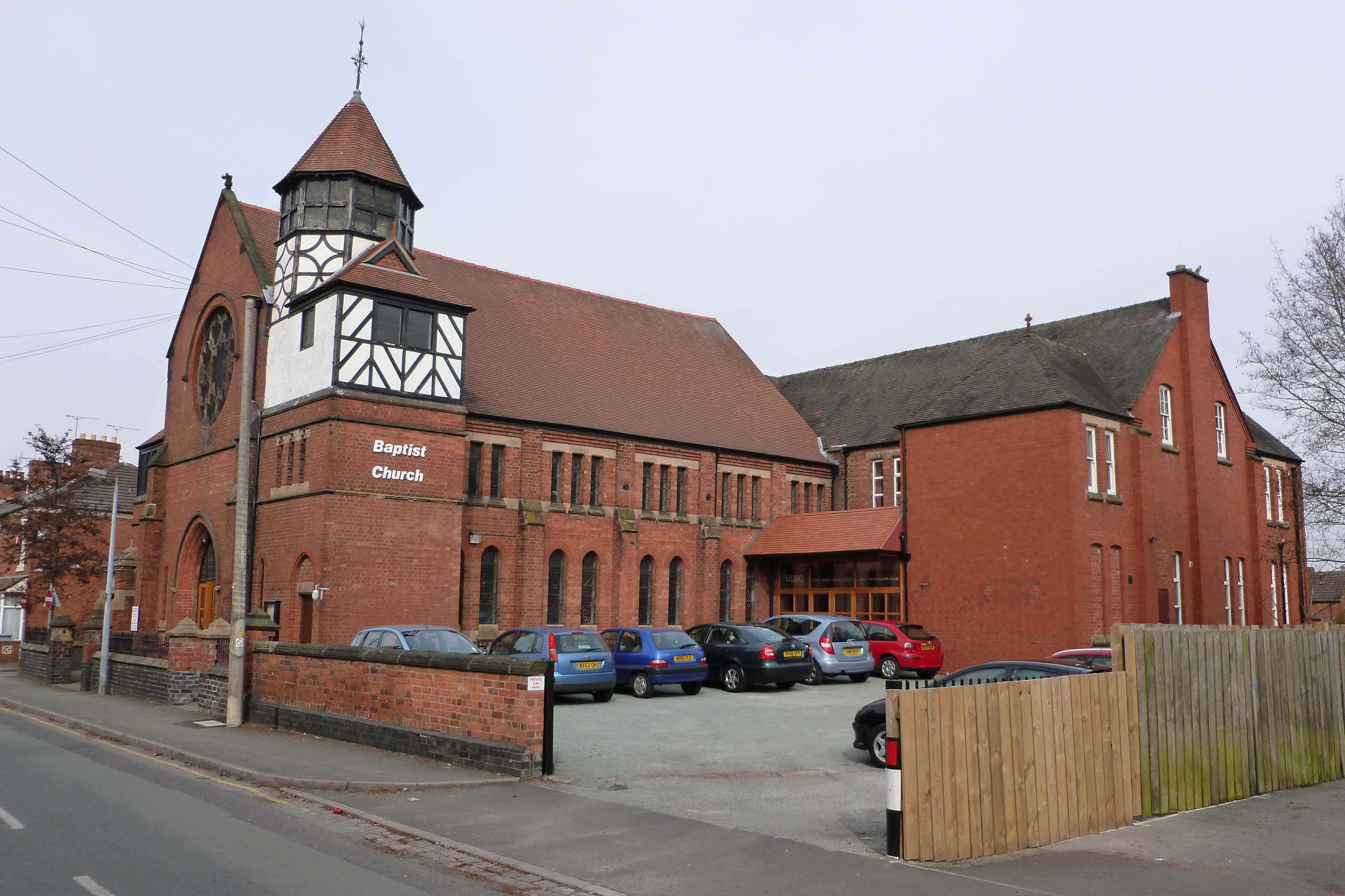 View of church